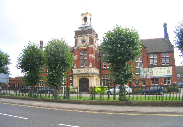 Brentwood Public School, Essex. The school was founded in 1557 and received its charter the following year.